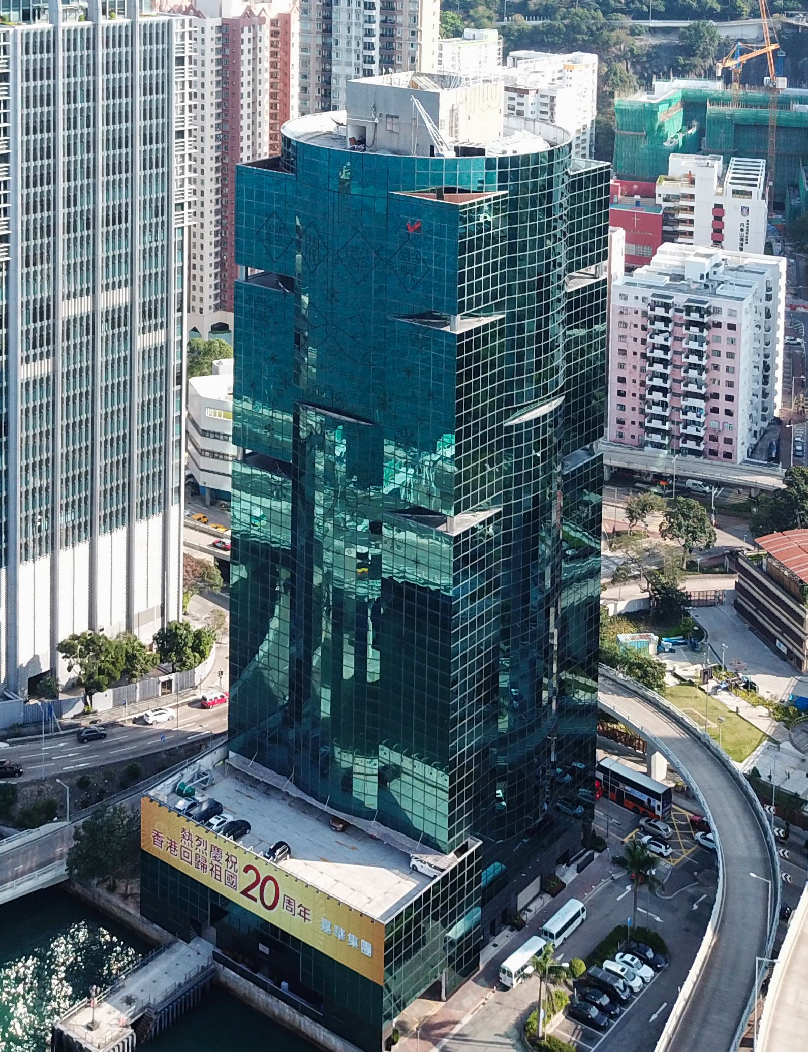 K. Wah Centre 嘉華國際中心